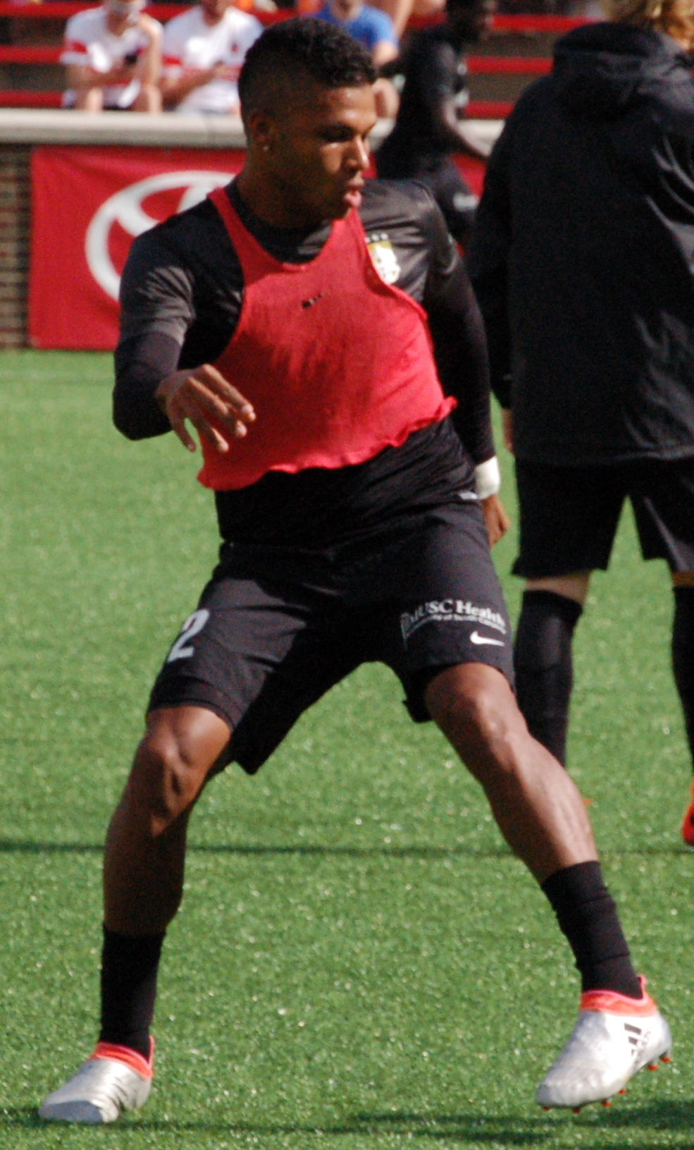 Maikel Chang Taken during a 2016 USL Playoffs Eastern Conference Quarterfinals match between FC Cincinnati and Charleston battery at Nippert Stadium in Cincinnati on October 2, 2016.